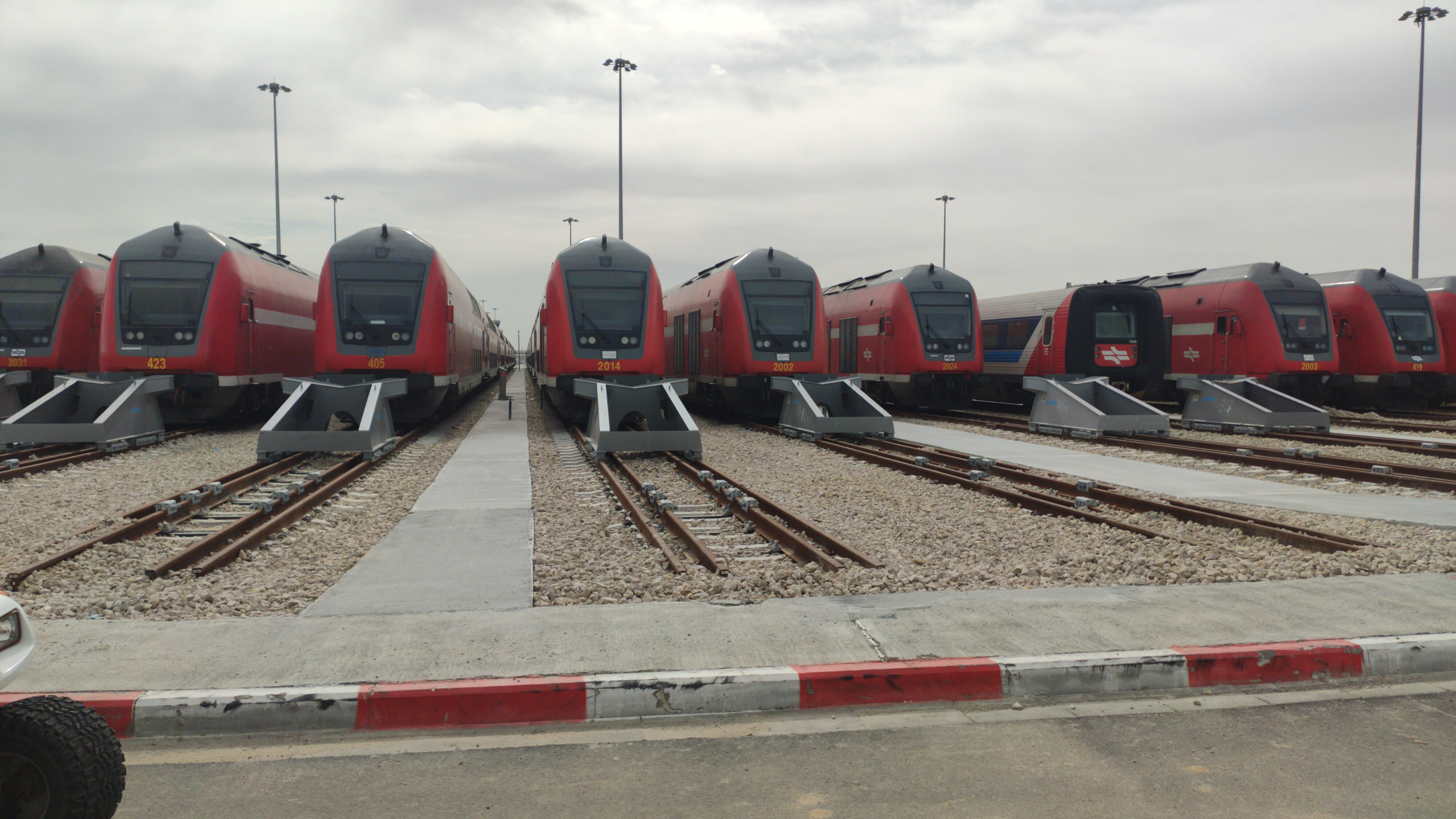 The stabling yard is full while Israel Railways' shutdown due to coronavirus pandemic. There are IC3, Bombardier Double-deck Coach.